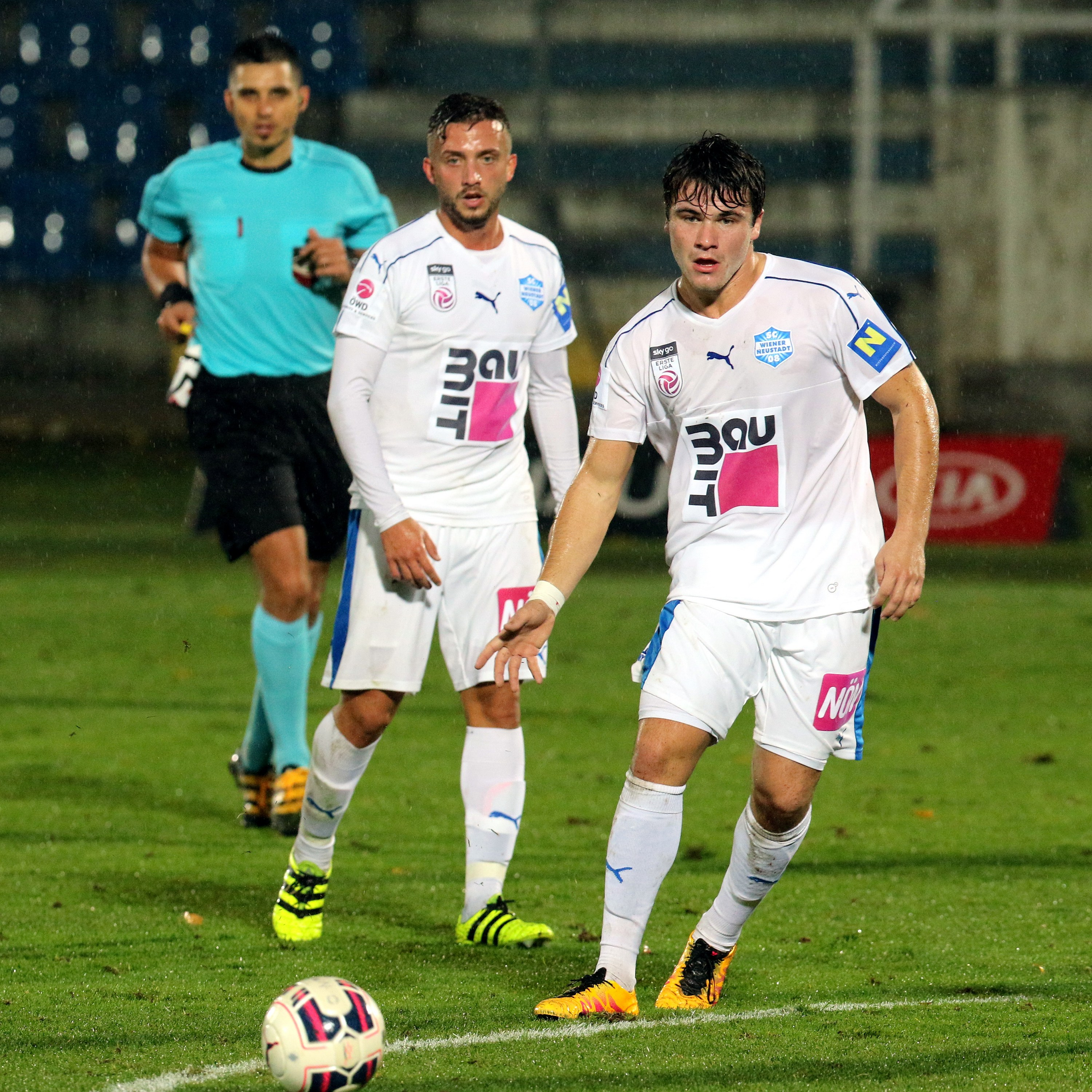 2016–17 Austrian Cup third round: SC Wiener Neustadt (white shirts) vs. FC Admira Wacker Mödling (red shirts) 1-3 (0-2) at 2016-10-25 in the Stadion in Wiener Neustadt — The photo shows from left to right referee Alan Kijas, Sandro Djuric and Robin Freiberger.